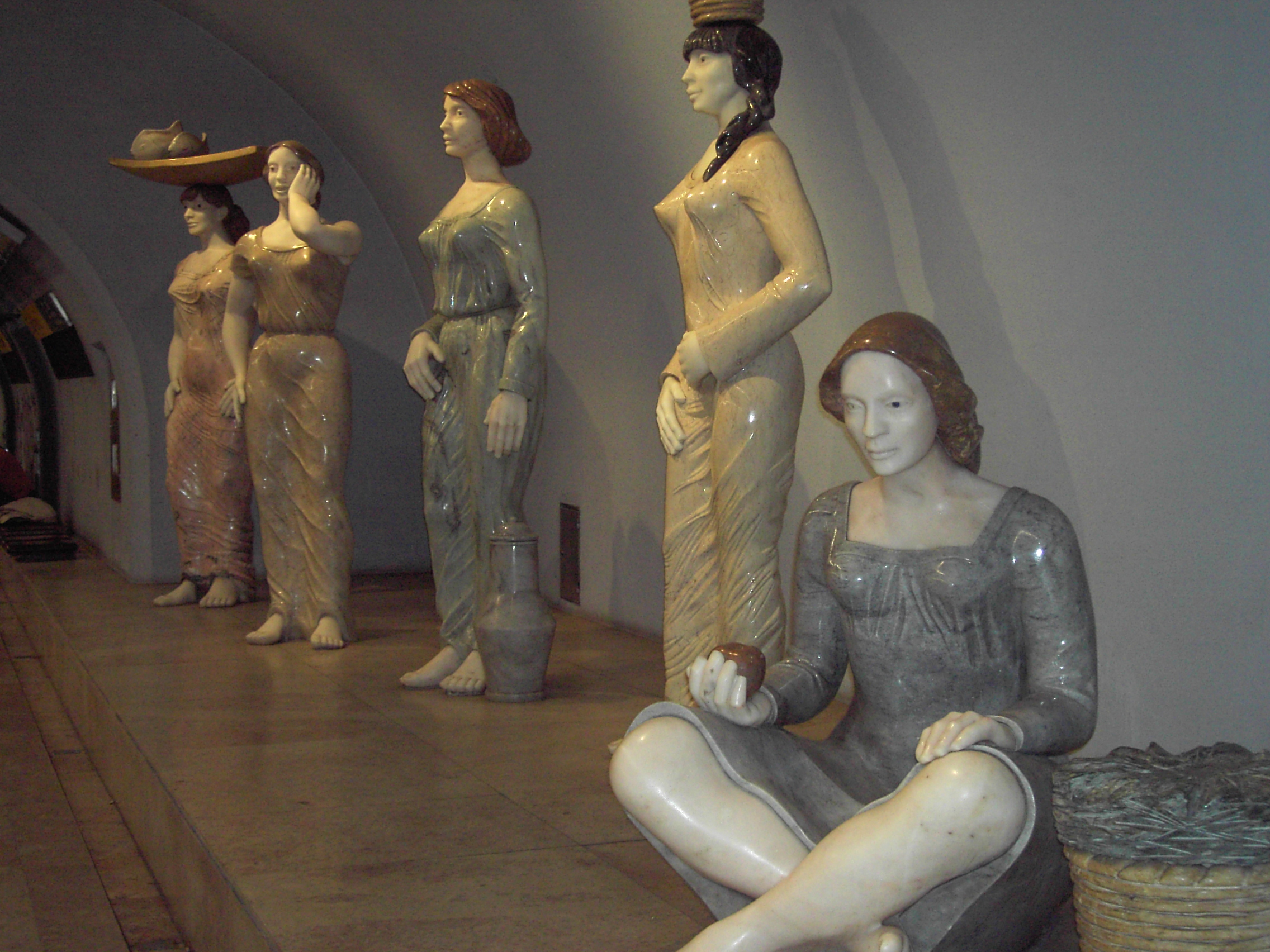 Sculptures in Campo Pequeno metro station, Lisbon, Portugal.